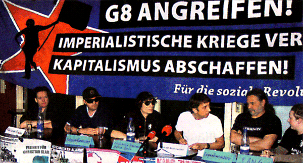 Ralf Reinders (2nd to the right) at a press conference